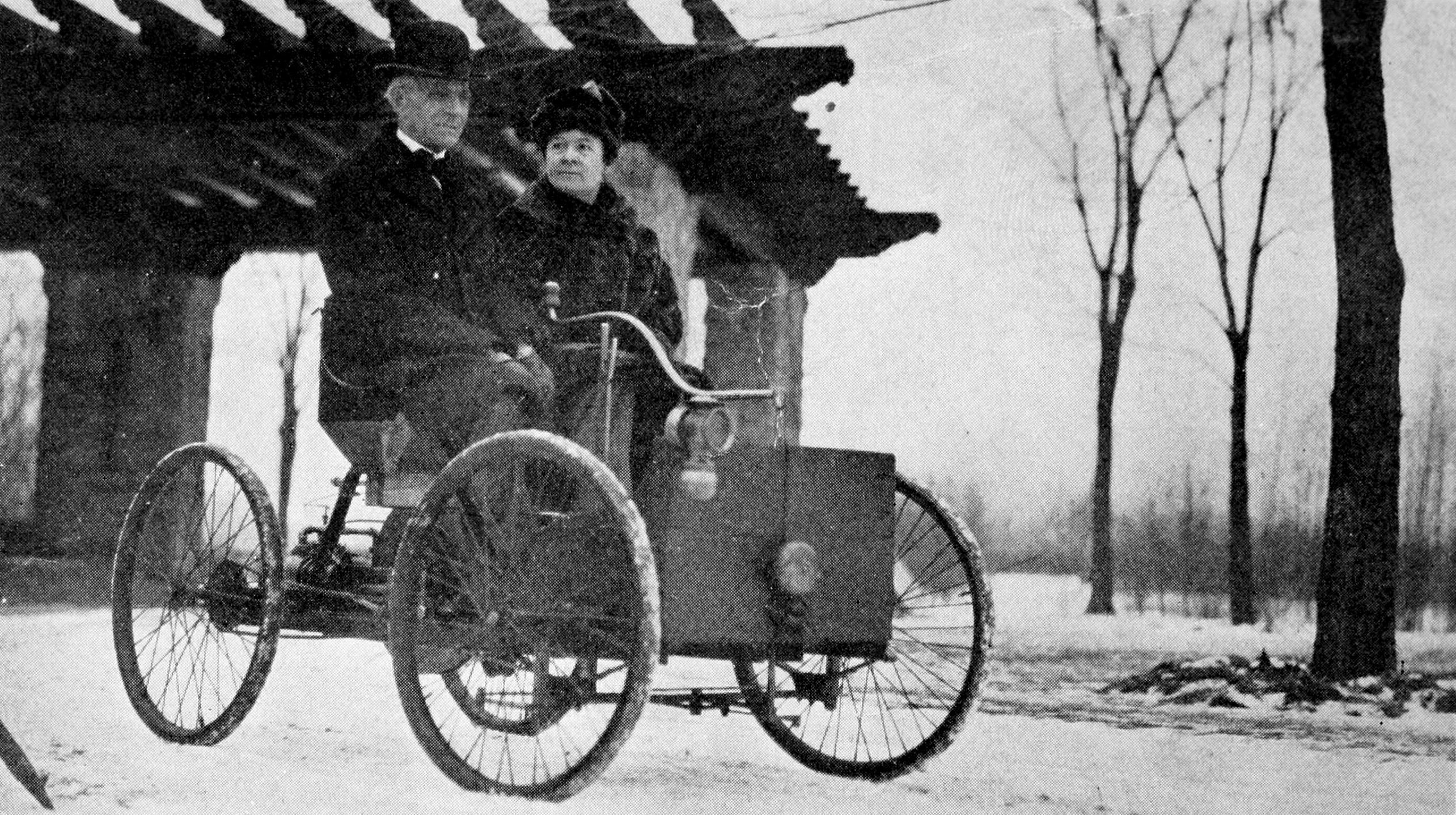 From The Truth About Henry Ford by Sarah T. Bushnell: Mr. and Mrs. Ford in his first car, which he sold but afterwards bought back. It is now his most prized posession. Notice the old-fashioned bicycle wheels, and the bell on dash. Note:This appears to be the Ford Quadricycle